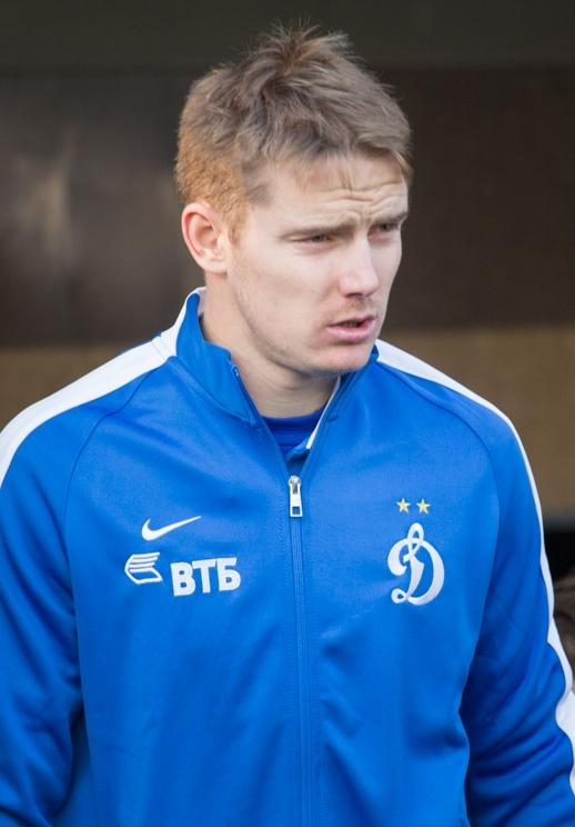 Tomáš Hubočan with FC Dynamo Moscow in 2014.